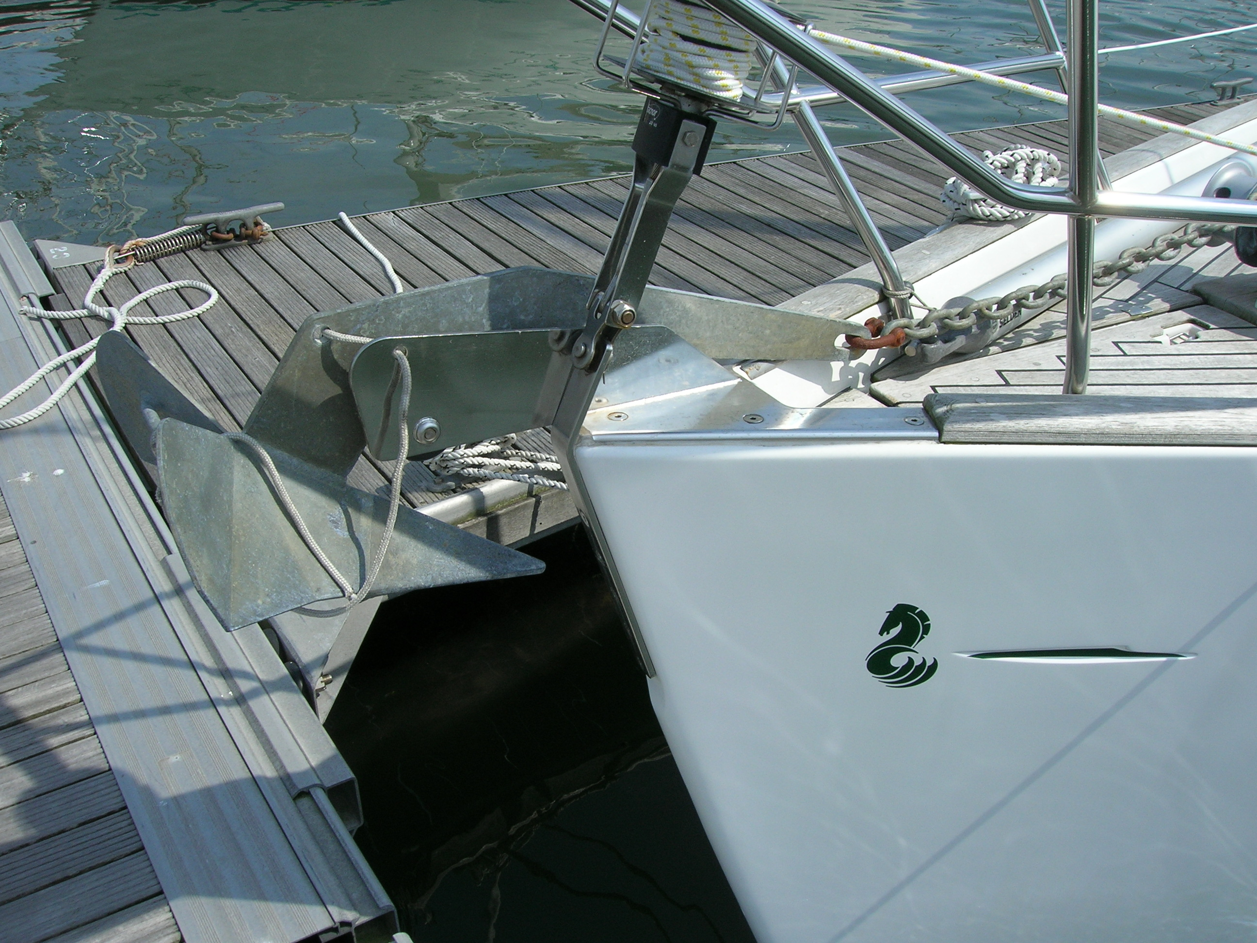 An anchor and anchor support at the bow of a sailboat.